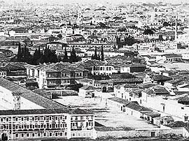 Katipzade Konak before 1867